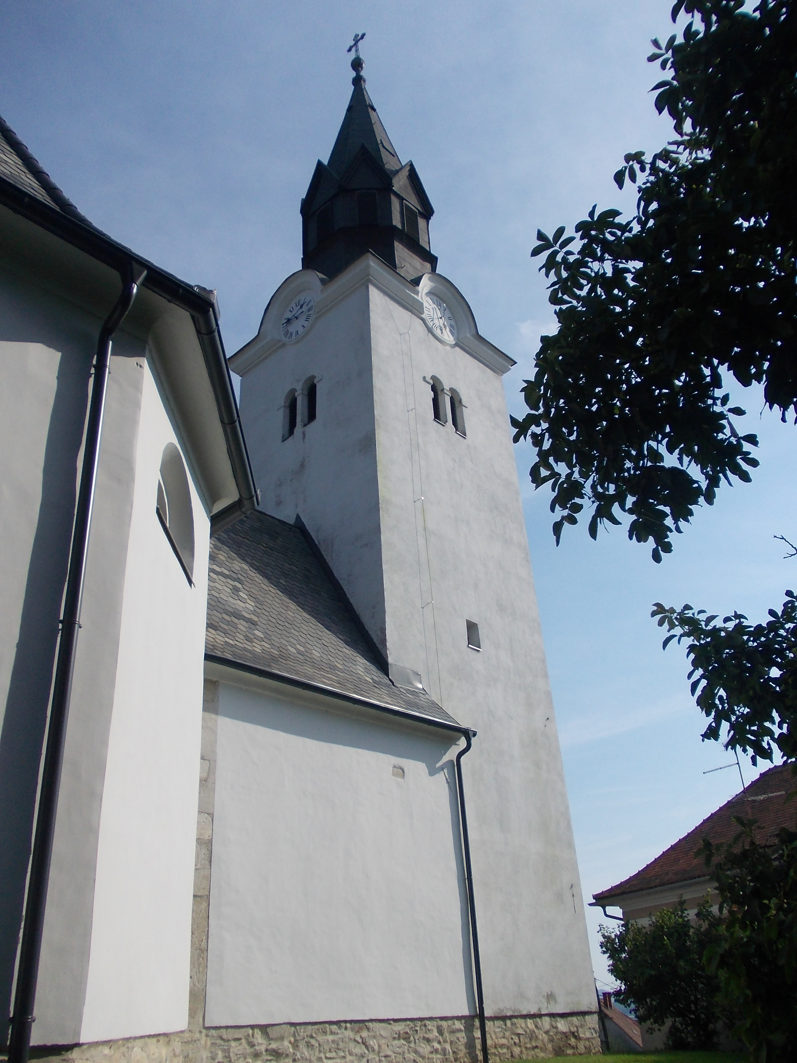 St. Michael's Church (Črešnjevec)